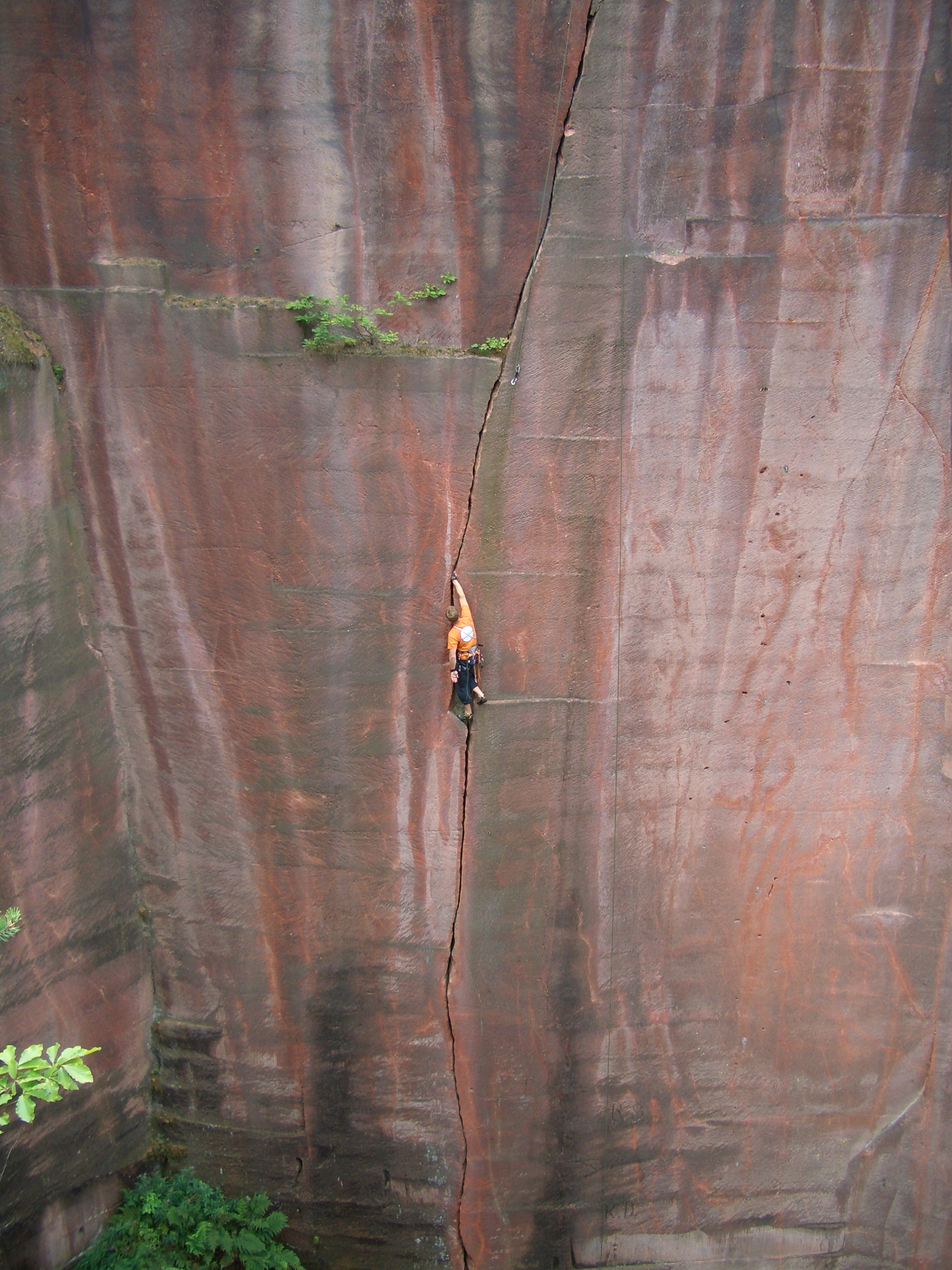 Climber on mountain of Rochlitz